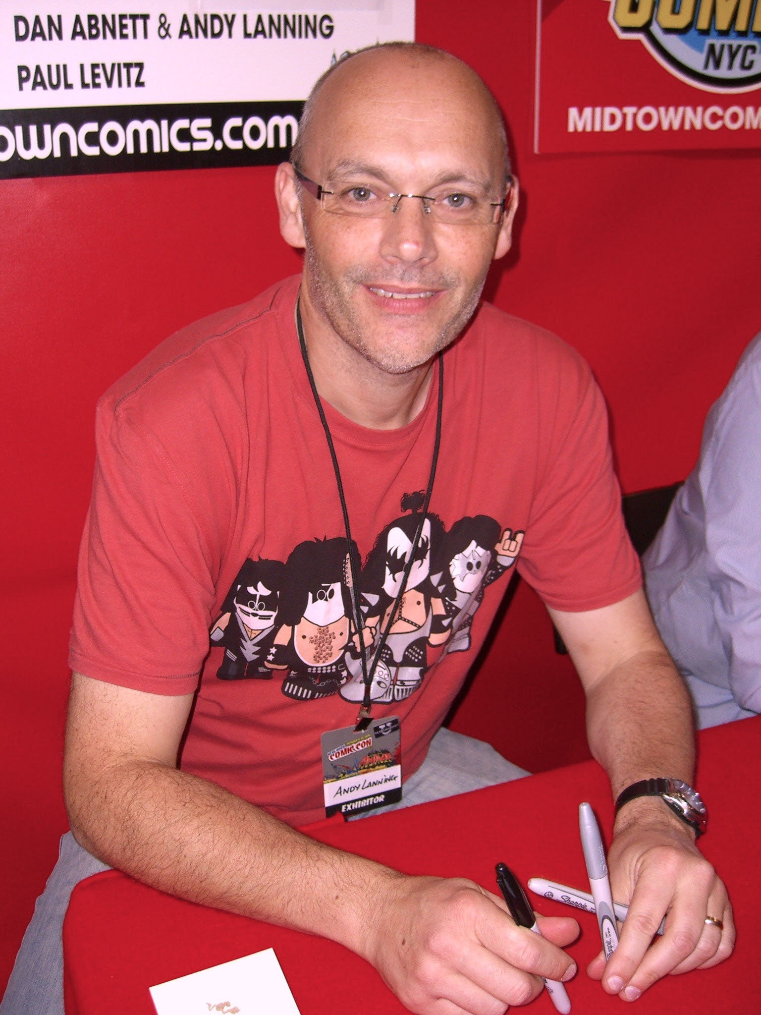 Comic book creator Andy Lanning at the Midtown Comics booth at the New York Comic Convention in Manhattan, October 10, 2010. This photo was created by Luigi Novi. It is not in the public domain, and use of this file outside of the licensing terms is a copyright violation.